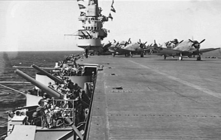 View of the flight deck of the U.S. Navy aircraft carrier USS Ranger (CV-4) in 1943 with Douglas SBD-3/-5 Dauntless of Bombing Squadron VB-4 and other planes on deck.